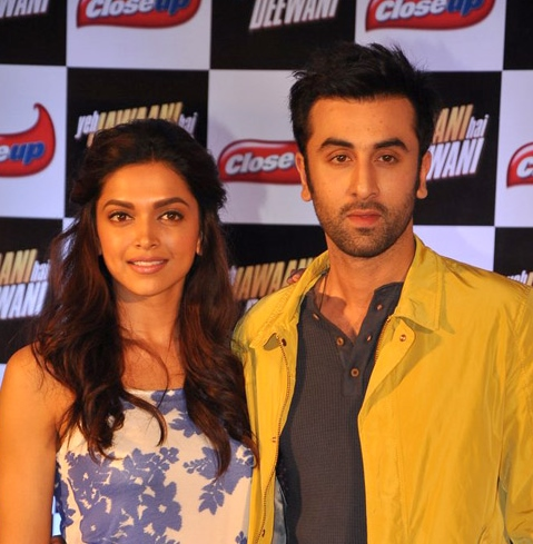 Ranbir Kapoor and Deepika Padukone at a promotional event of Yeh Jawaani Hai Deewani in May 2013